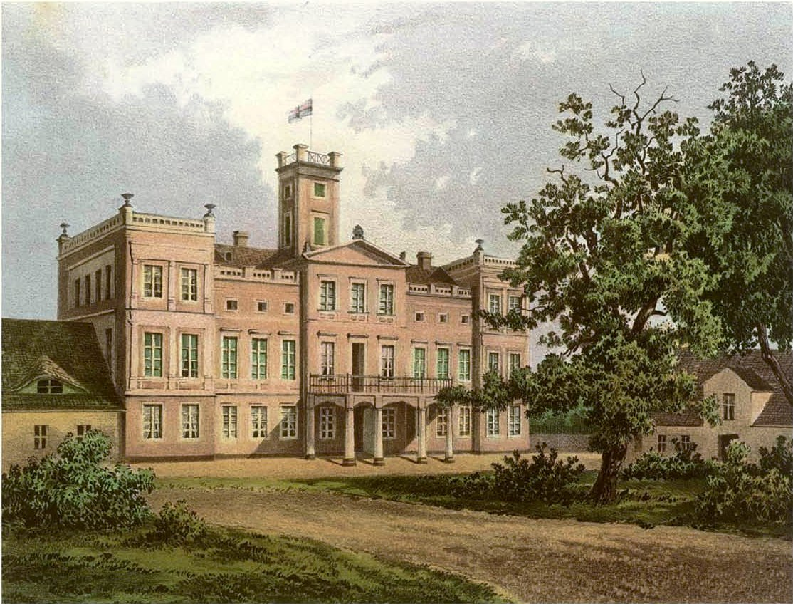 Palace in Warnice, Dębno borough